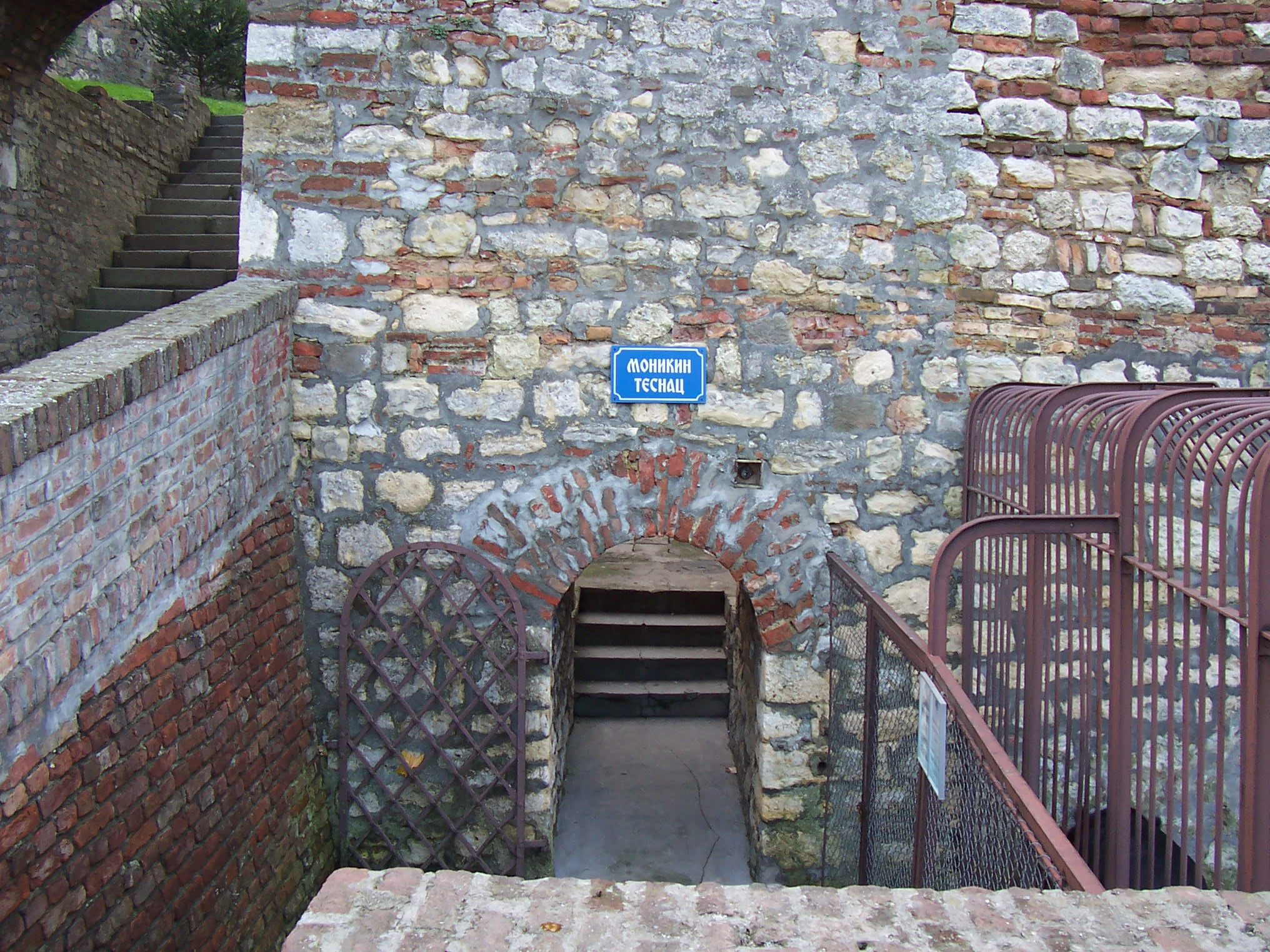 Monikin tesnac (Monica's Narrows) in Belgrade Zoo.